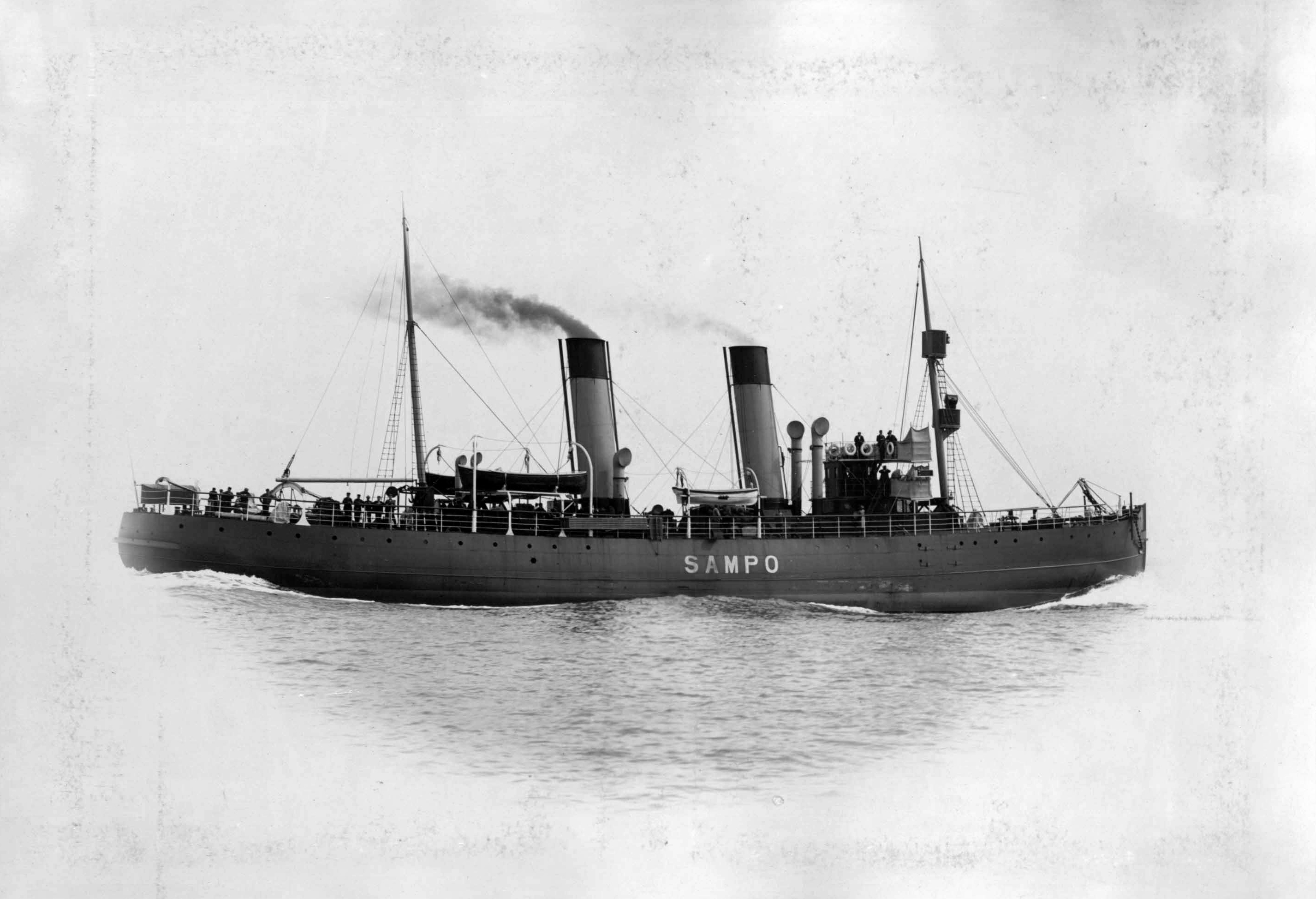 Finnish icebreaker Sampo, built 1898 and scrapped in 1960, undergoing sea trials.